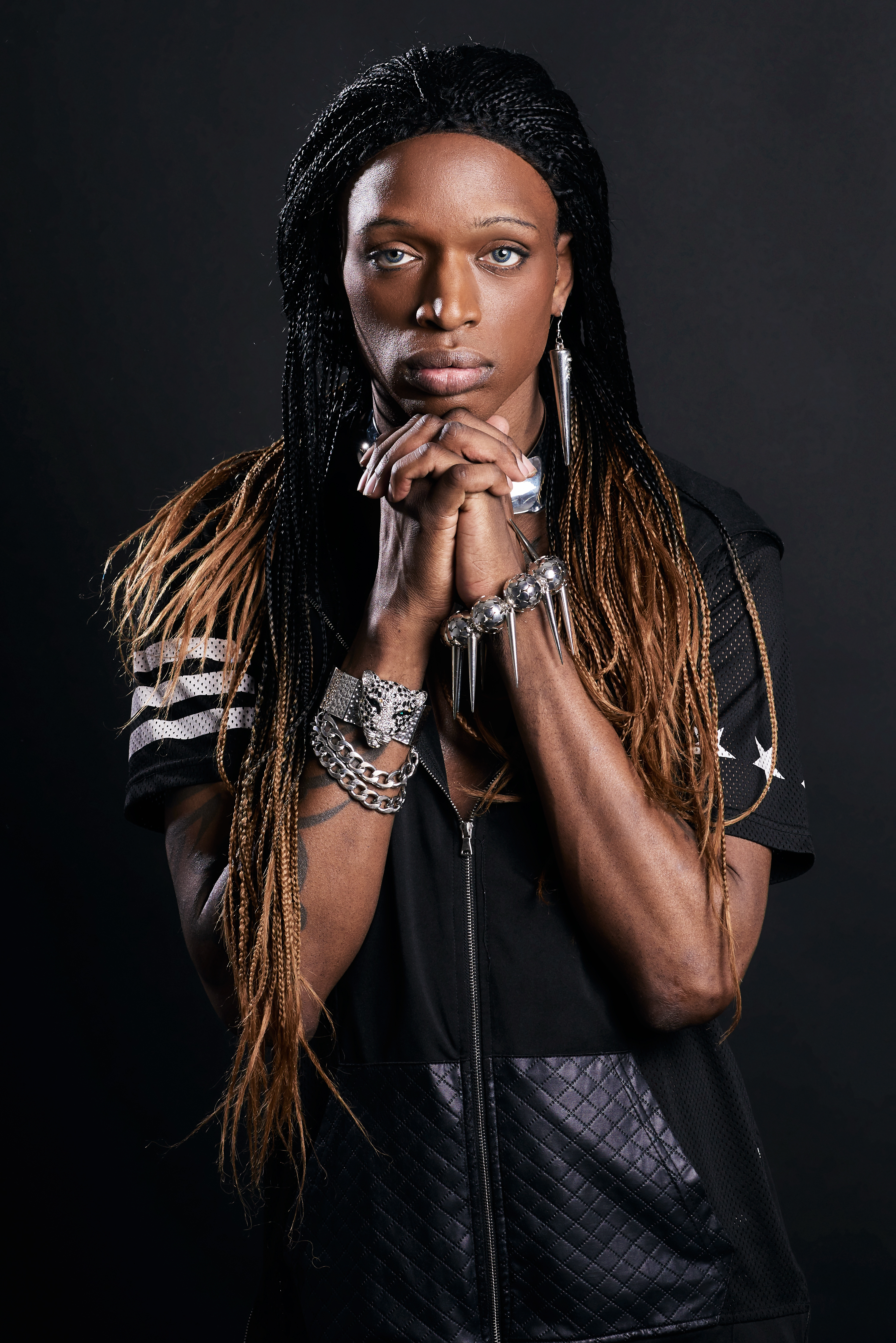 Demetri Betts in March 2017